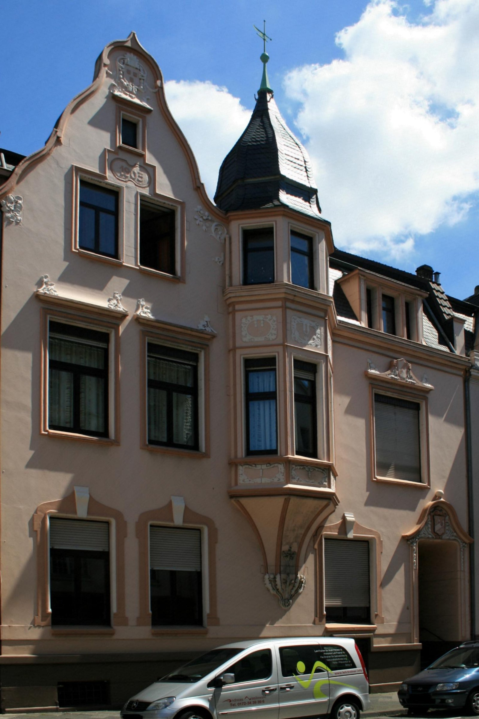 Cultural heritage monument No. L 001 in Mönchengladbach